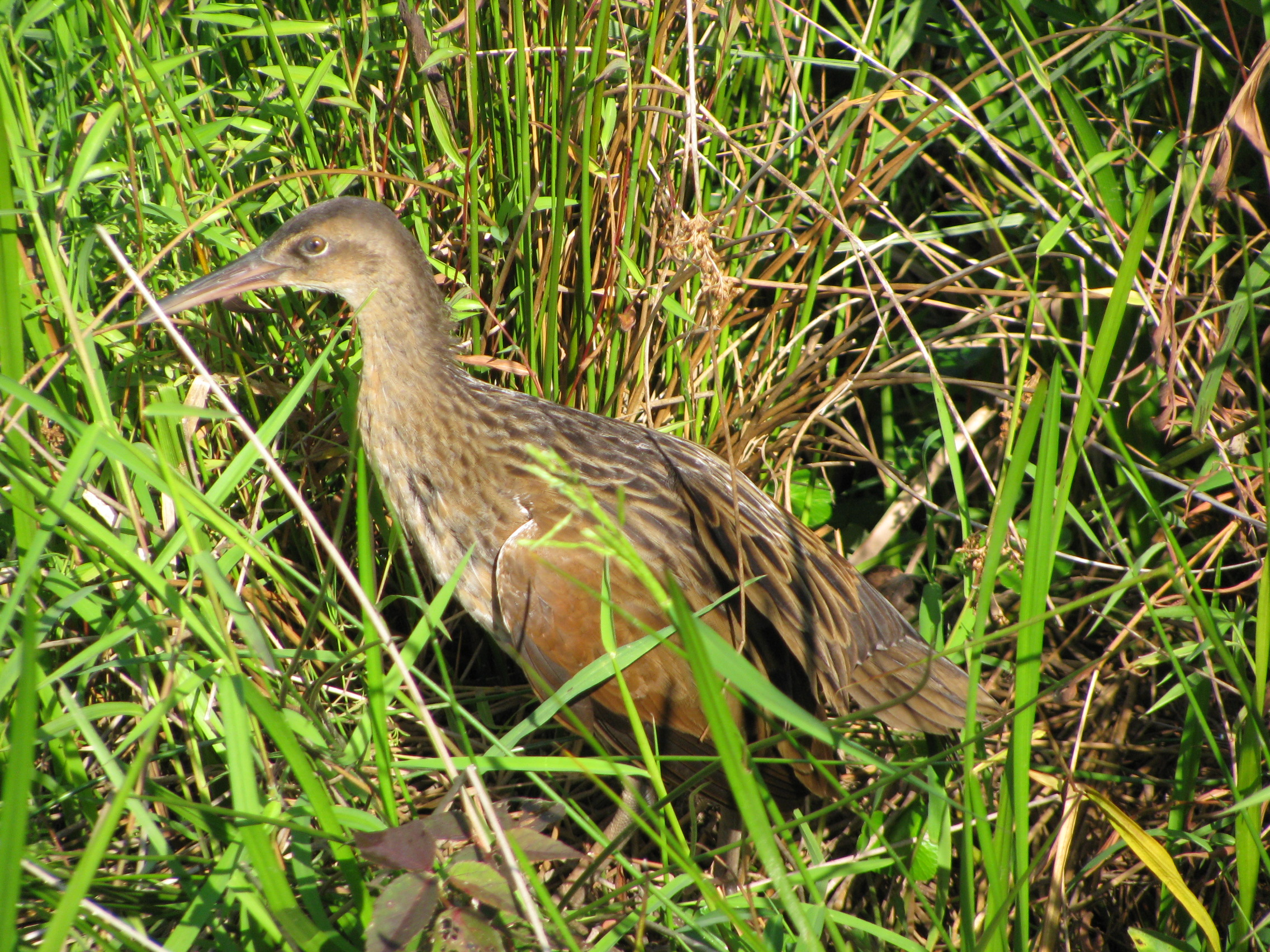 King Rail. Taken at Huntley Meadows in Virginia.